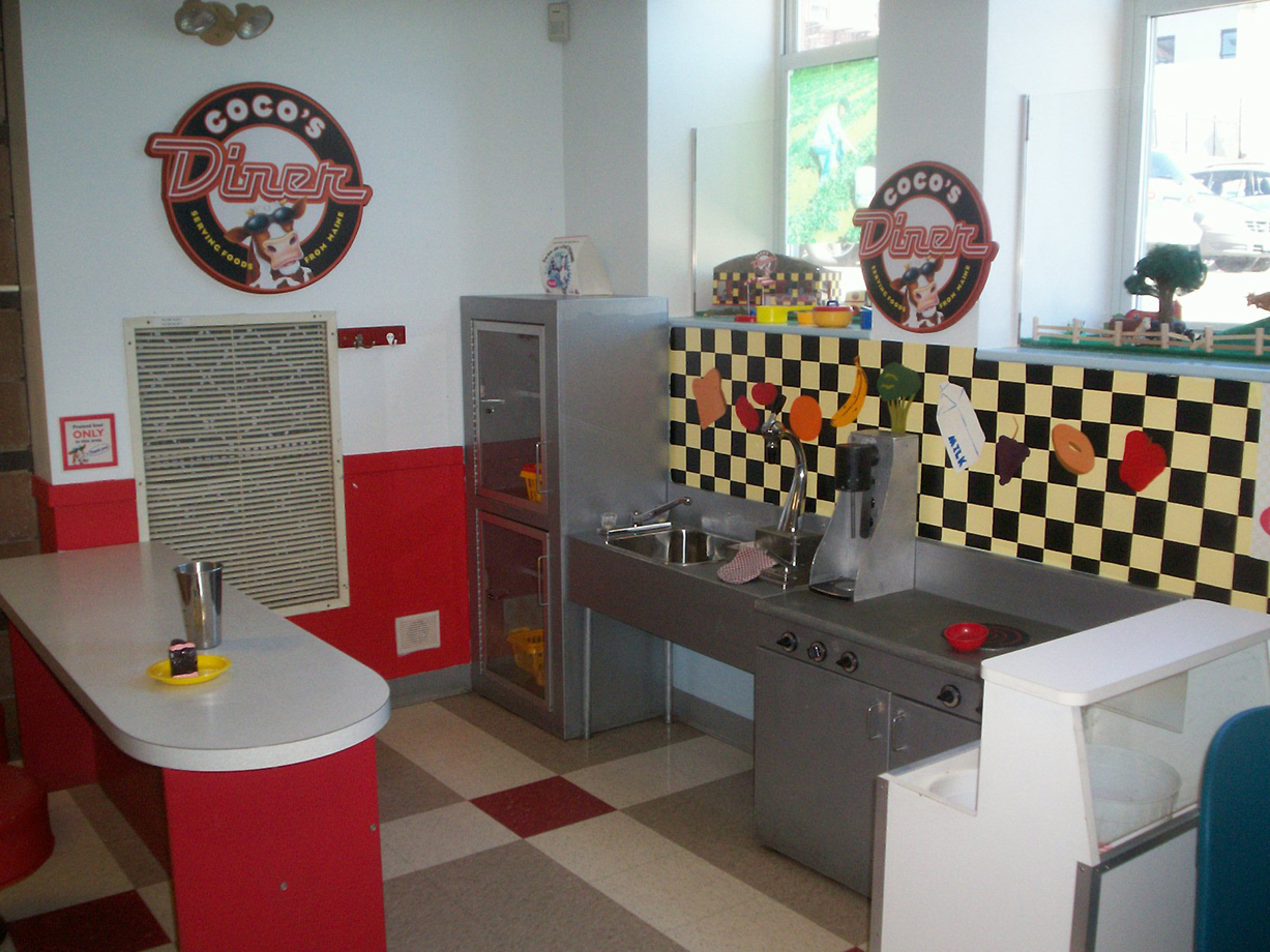 Children's Museum & Theatre of Maine Coco's Diner